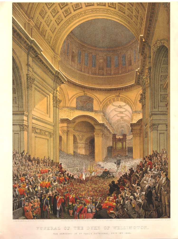 Coloured lithograph of the funeral of the Duke of Wellington in St Paul's Cathedral, 1852, engraved by William Simpson after Louis Haghe